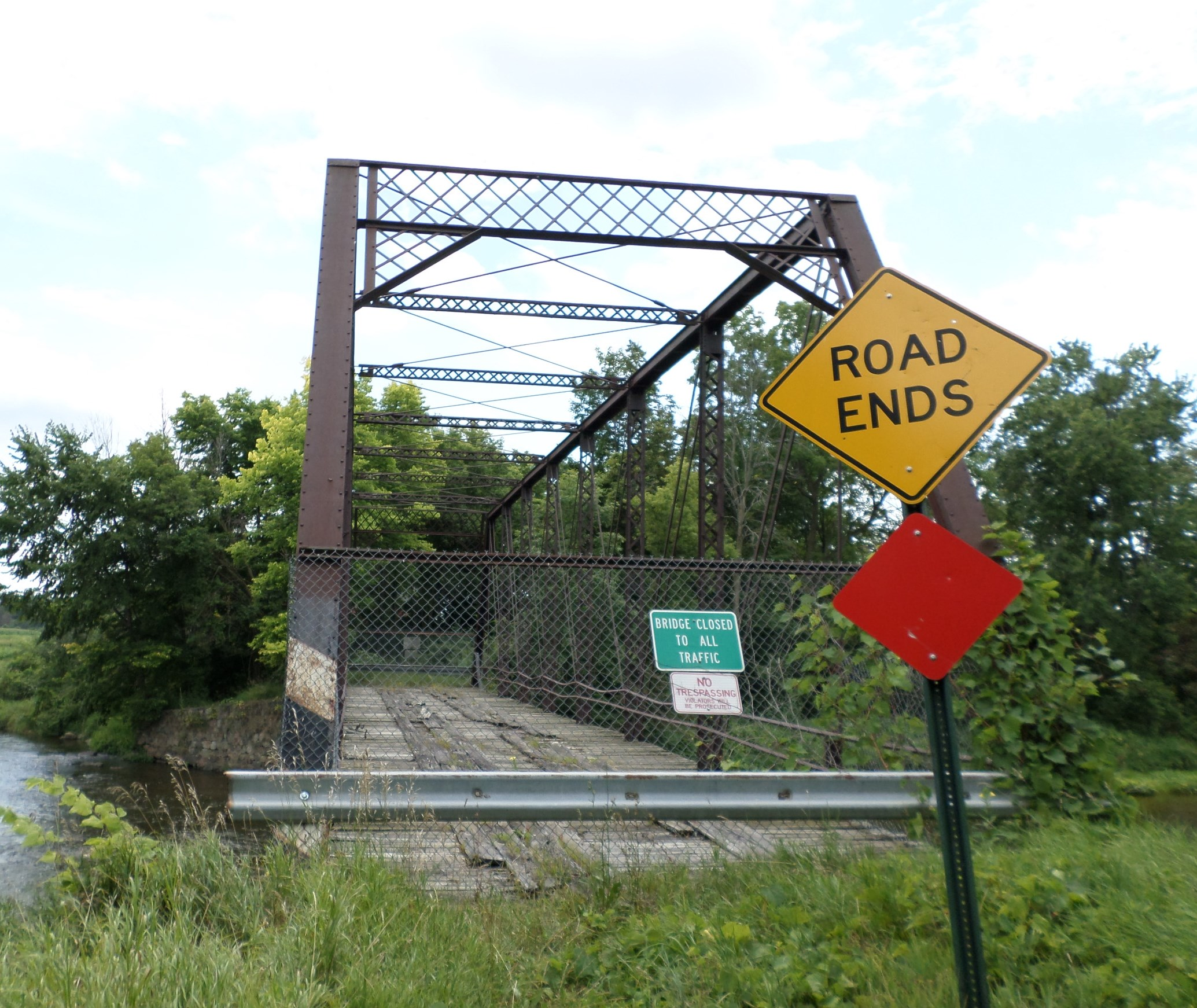 The Martin Road Bridge, crossing the Shiawassee River, in Caledonia Township, MI.